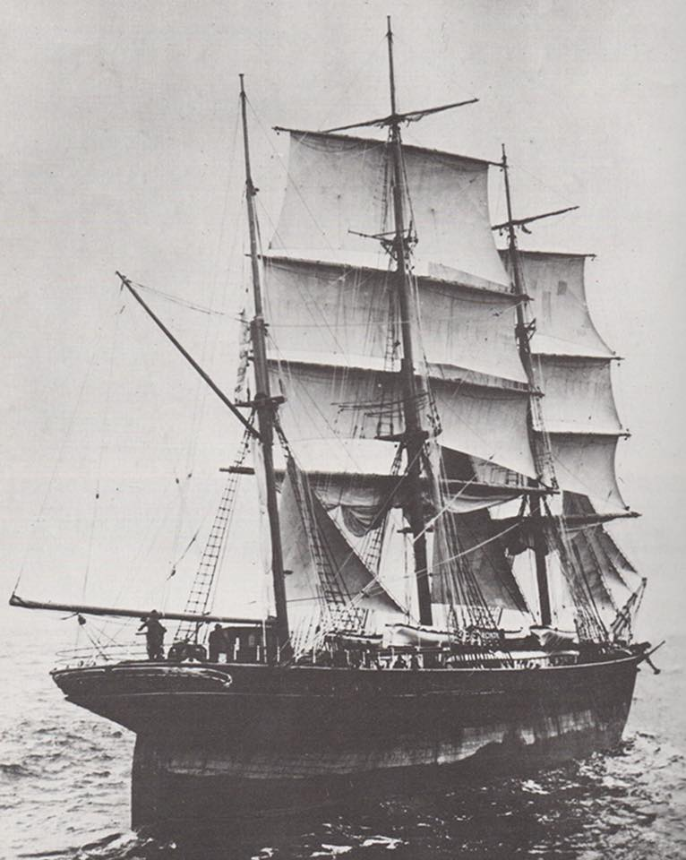 A picture of the S.V. Lothair